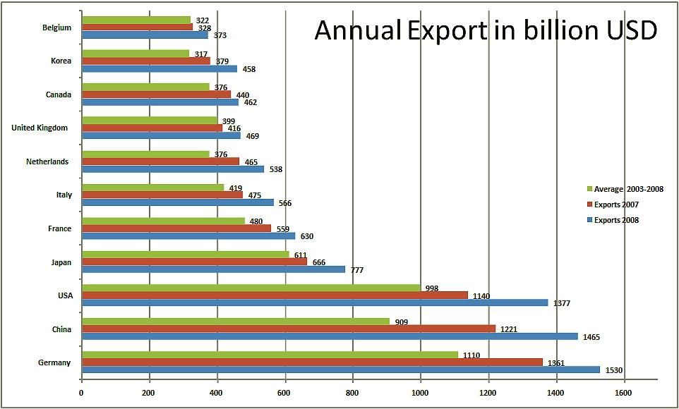 Annual Exports of different industrial countries from 2003-08. Data depending on Simon, Herman (2009), p. 16 (ISBN 978-0-387-98147-5).[2]